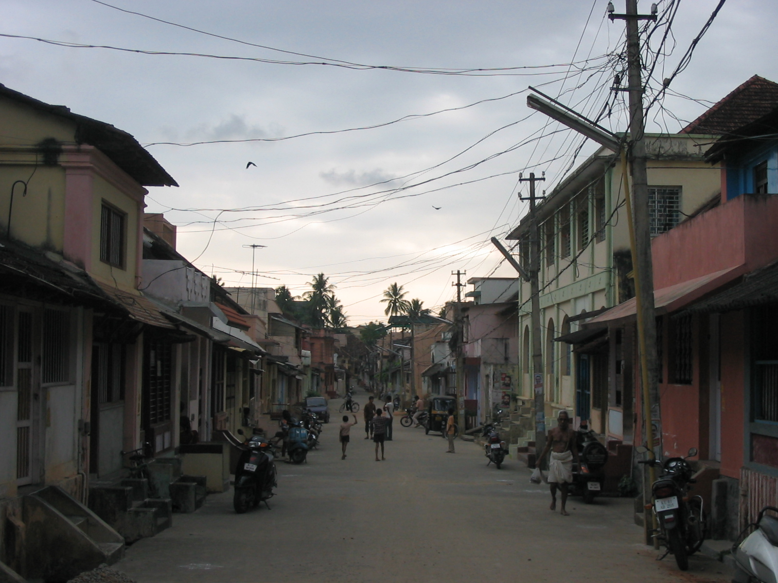 A street in Karamana, a suburb of Thiruvananthapuram